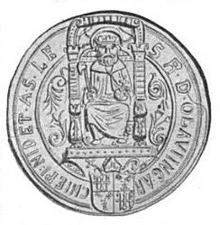 1527 Seal of Olav Engelbrektsson, the Archbishop of Nidaros, featuring St. Olav of Norway